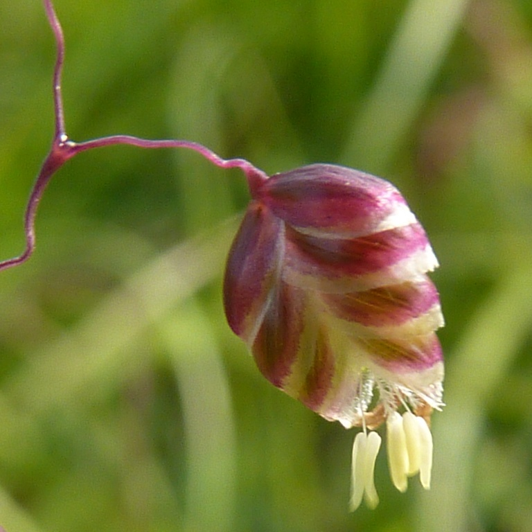 Brizia media - Common Quaking Grass. Detail of spikelet. Growing in chalk downland, Yew Hill, Winchester, Hampshire, UK. 2 June 2011.